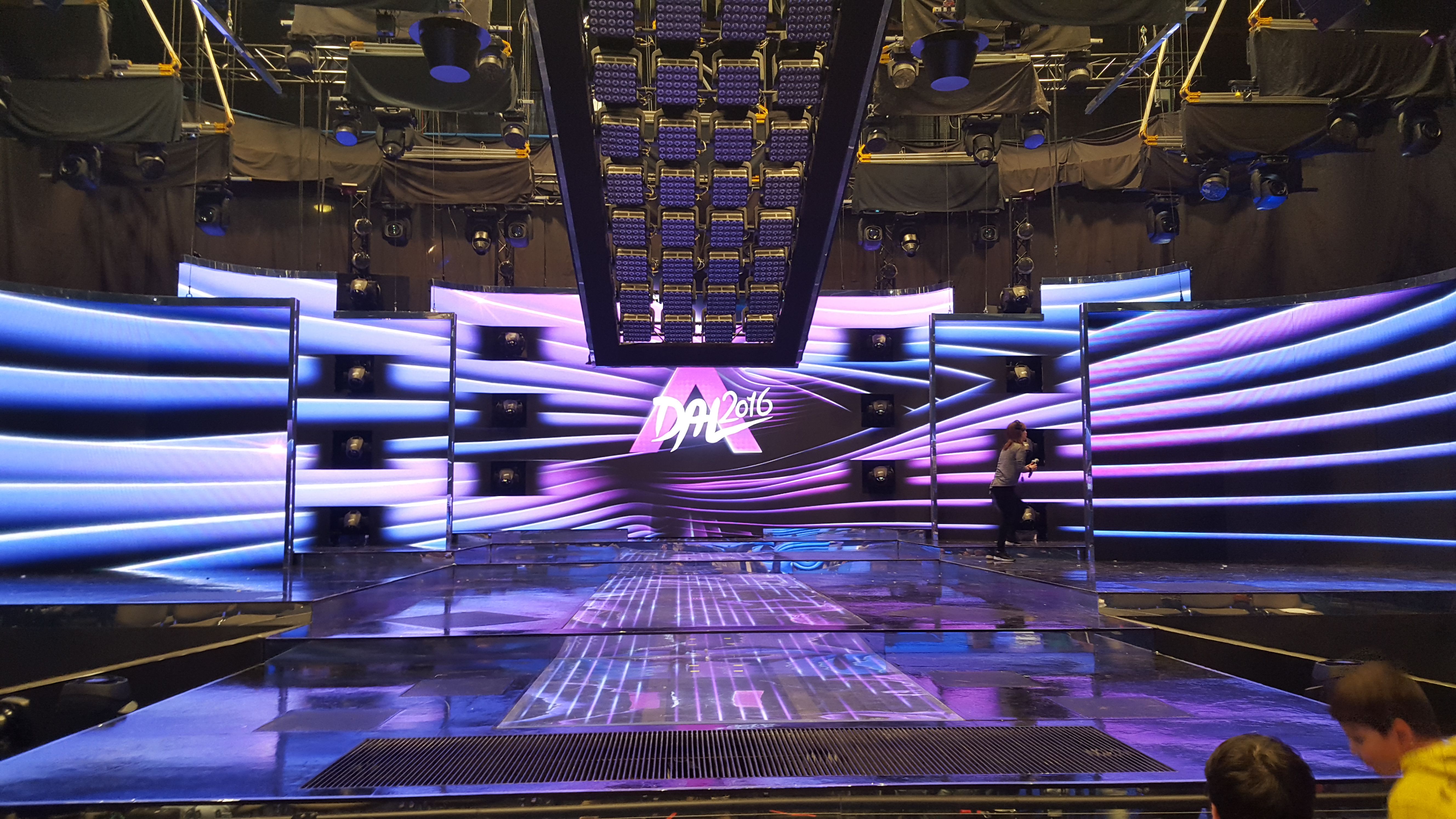 A Dal 2016 studio at MTVA headquarters in Budapest, District III